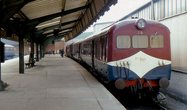 DE railcars, Belfast A three-car set of (the now scrapped) 70-class railcars awaits departure from York Road station (replaced by Yorkgate) with the 12.10 to Larne Harbour. Based on the British Rail “Hastings” DEMU trains, they were the last passenger stock built in Belfast.